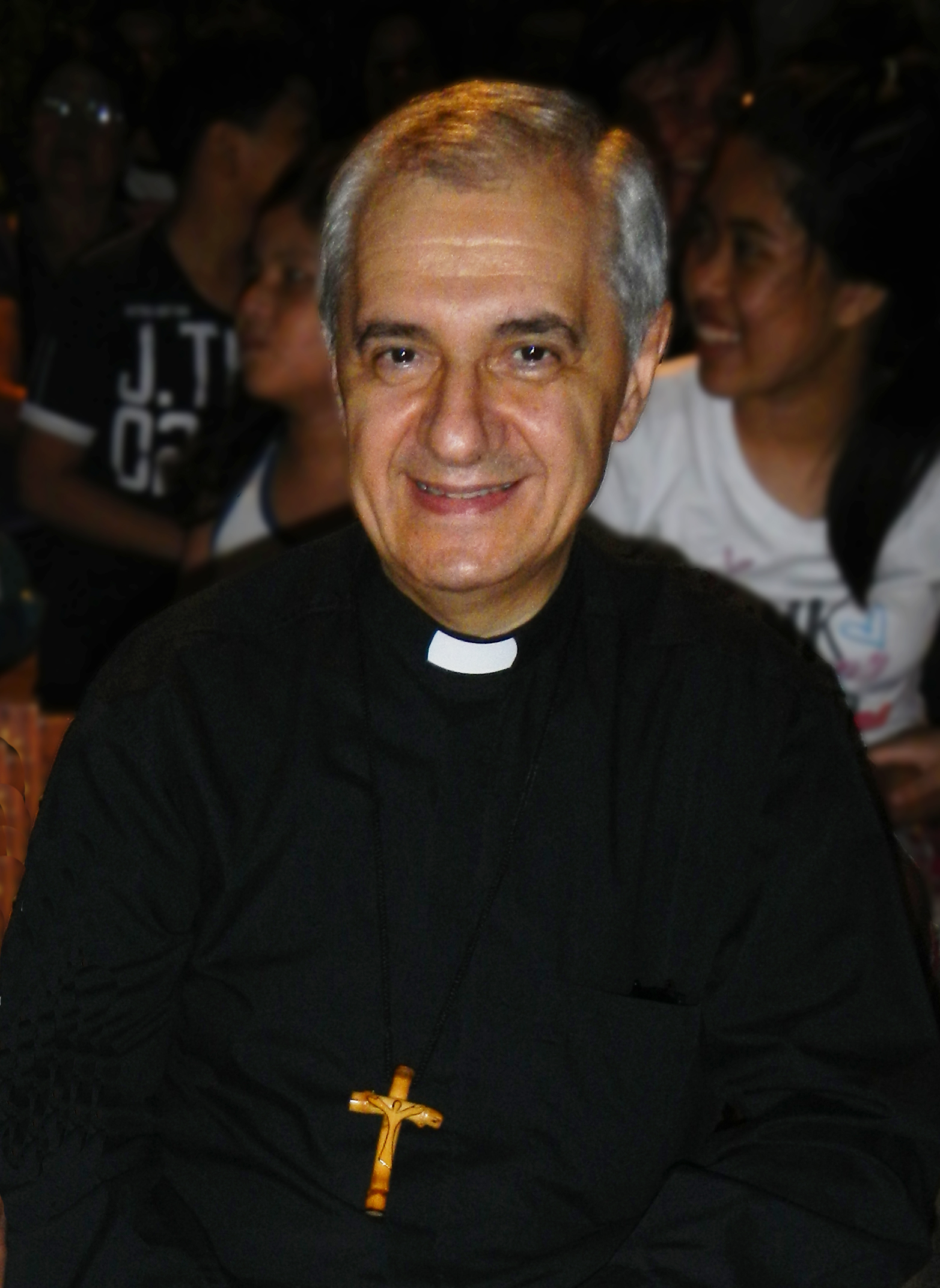 Photo of Archbishop Giuseppe Pinto, Papal or Apostolic Nuncio of the Philippines , beside is Fr. Len Coronel, Parish Priest of Concepcion, Baliuag Quasi-Parish -watching the- Good Friday Baliuag, Bulacan procession: Apostolic Nunciature to the Philippines[1] Past Apostolic Nuncio[2]Giuseppe Pinto (10 May 2011 – present)[3]New Papal Nuncio Giuseppe Pinto arrives in Manila [4]Vatican’s official representative to the Philippines, Archbishop Giuseppe Pinto, arrives in Manila on Friday (July 15) to fill in the post left by formal Papal Nuncio John Joseph Edwards who was reassigned to Greece by Pope Benedict XVI last February. Archbishop Pinto was born in Bari, Italy on May 26, 1952. He was ordained as a priest on April 1, 1978 and holds a doctorate in Canon Law. He is fluent in Italian, French, English and Spanish. He entered the Diplomatic Service of the Holy See on May 1, 1984, and has served successively in Papua New Guinea, Argentina and the Secretariat of State in Vatican City. He also served as apostolic nuncio to Senegal, Cape Verde, Mali and Guinea-Bissau, and has been assigned as Apostolic Delegate to Mauritania. Prior to his current appointment, the archbishop was apostolic nuncio in Chile since 2007. A Papal or Apostolic Nuncio is the permanent diplomatic representative of the Holy See to a state or international organization. The Apostolic Nuncio holds the rank of an ambassador, and is granted the deanship of the country’s diplomatic corps.[5]Pope names new nuncio to Manila New Vatican envoy, 16th to Philippines, comes to Asia after service in Chile[6] Msgr. Gabor Pinter.